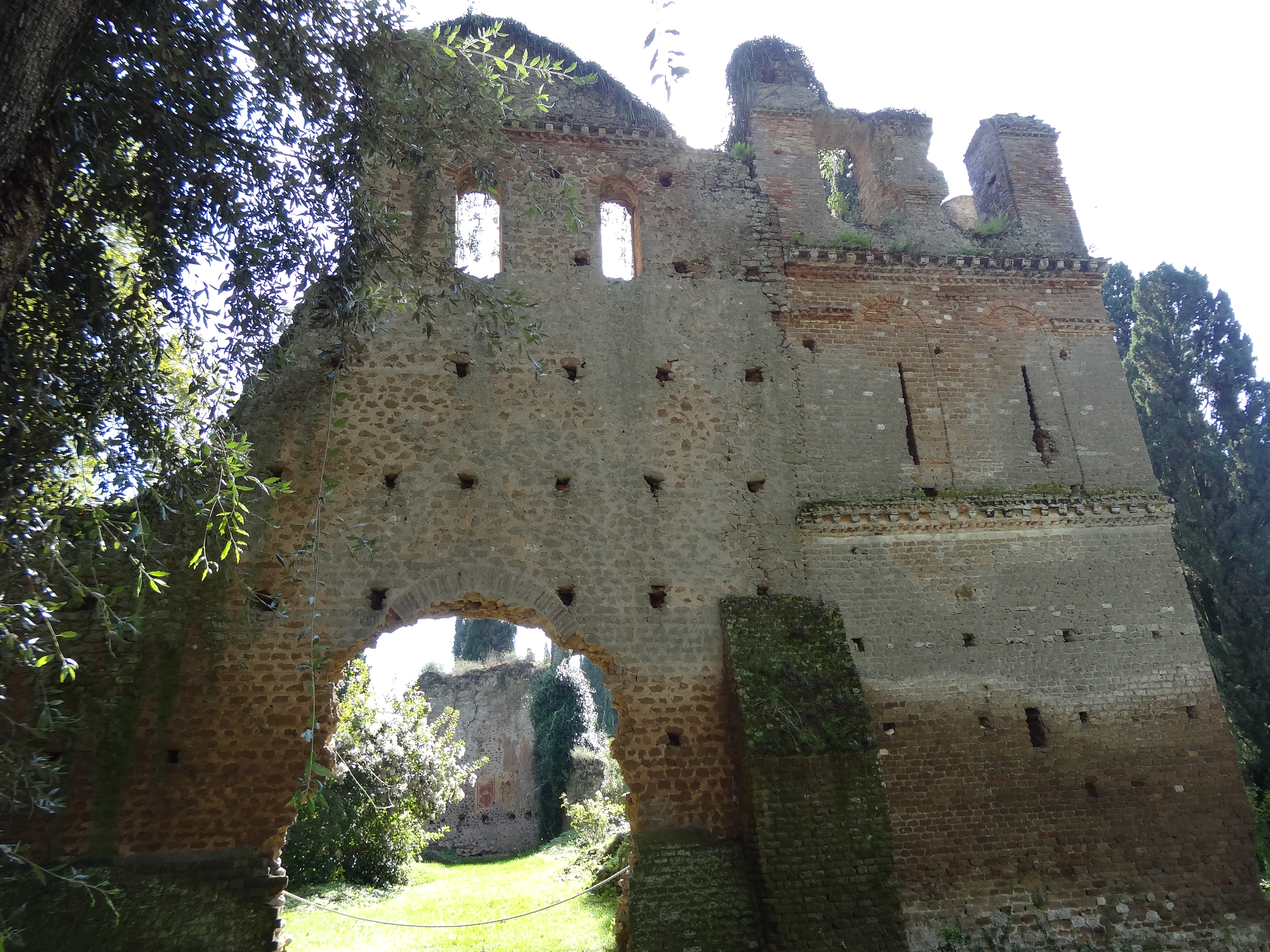 Garden of Ninfa